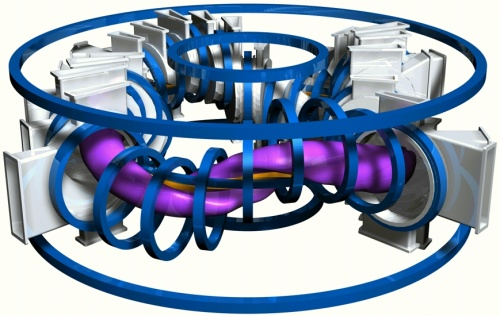 TJ-II model including plasma, coils and vacuum vessel